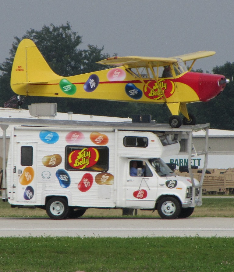 Interstate S-1A-65F Cadet